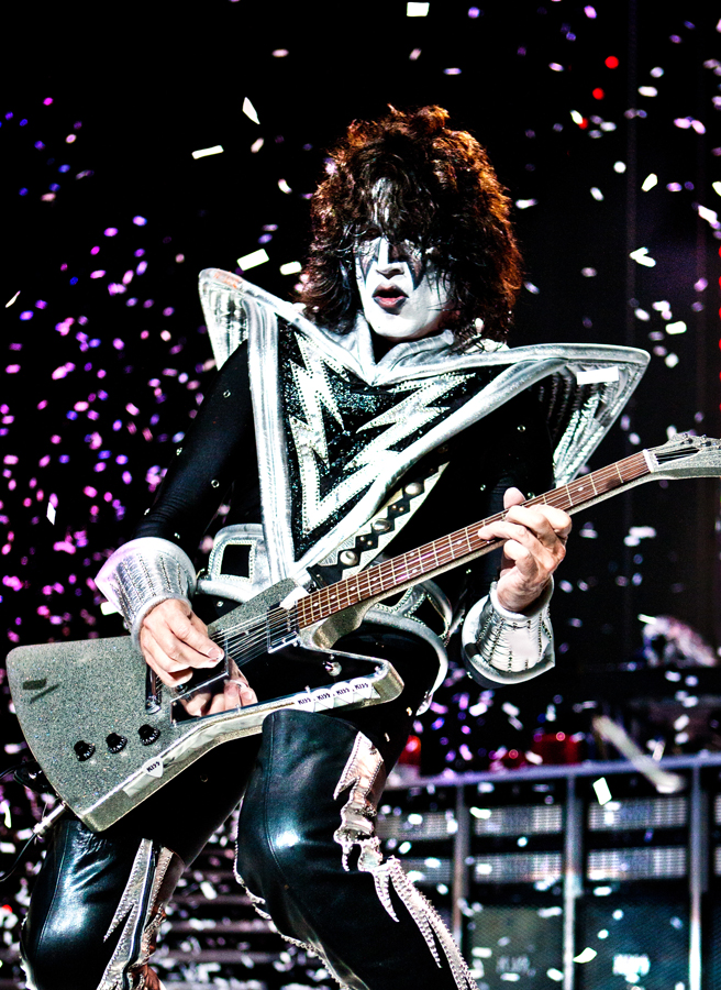 Tommy Thayer live 2012 Other information no